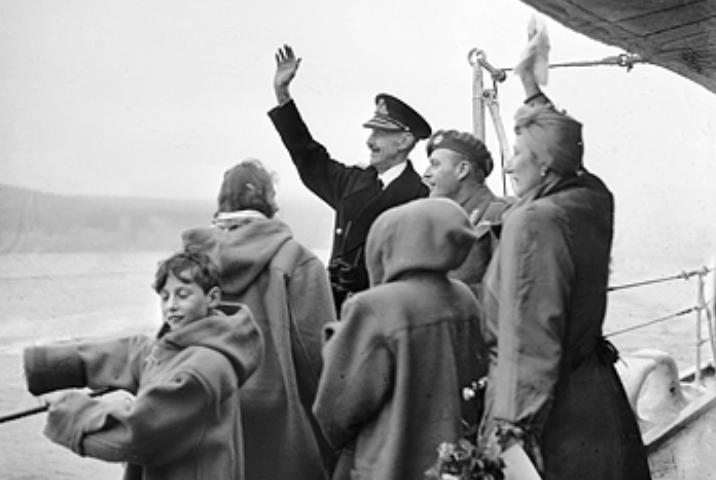 The royal family of Norway waving to the welcoming crowds from HMS NORFOLK at Oslo. With them is Crown Prince Olaf (centre) who came on board in a launch. The royal family escaped from Norway just after the German invasion.